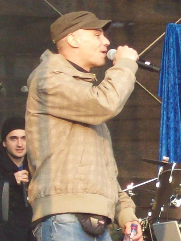 The rapper Der Wolf at the transindustriale in Dortmund at Phoenix-West.